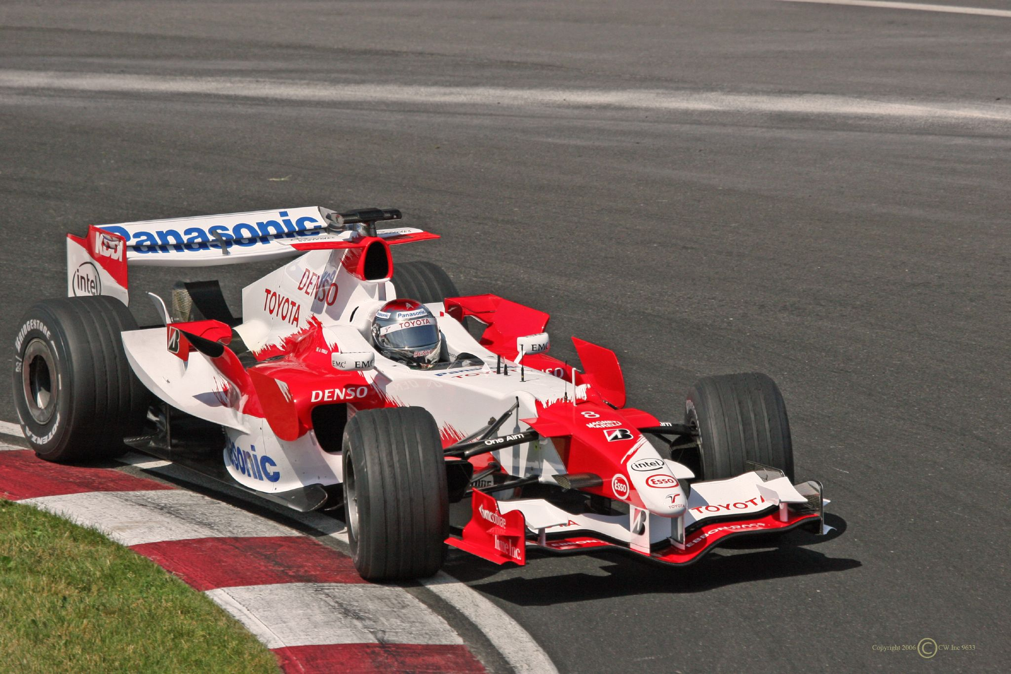 Jarno Trulli driving for Toyota F1 at the 2006 Canadian Grand Prix.